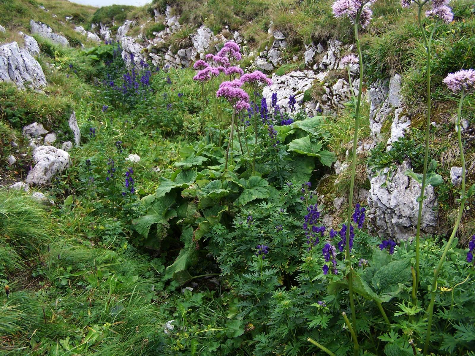 Adenostyletum alliariae (Tatra Mountains, Czerwone Wierchy)